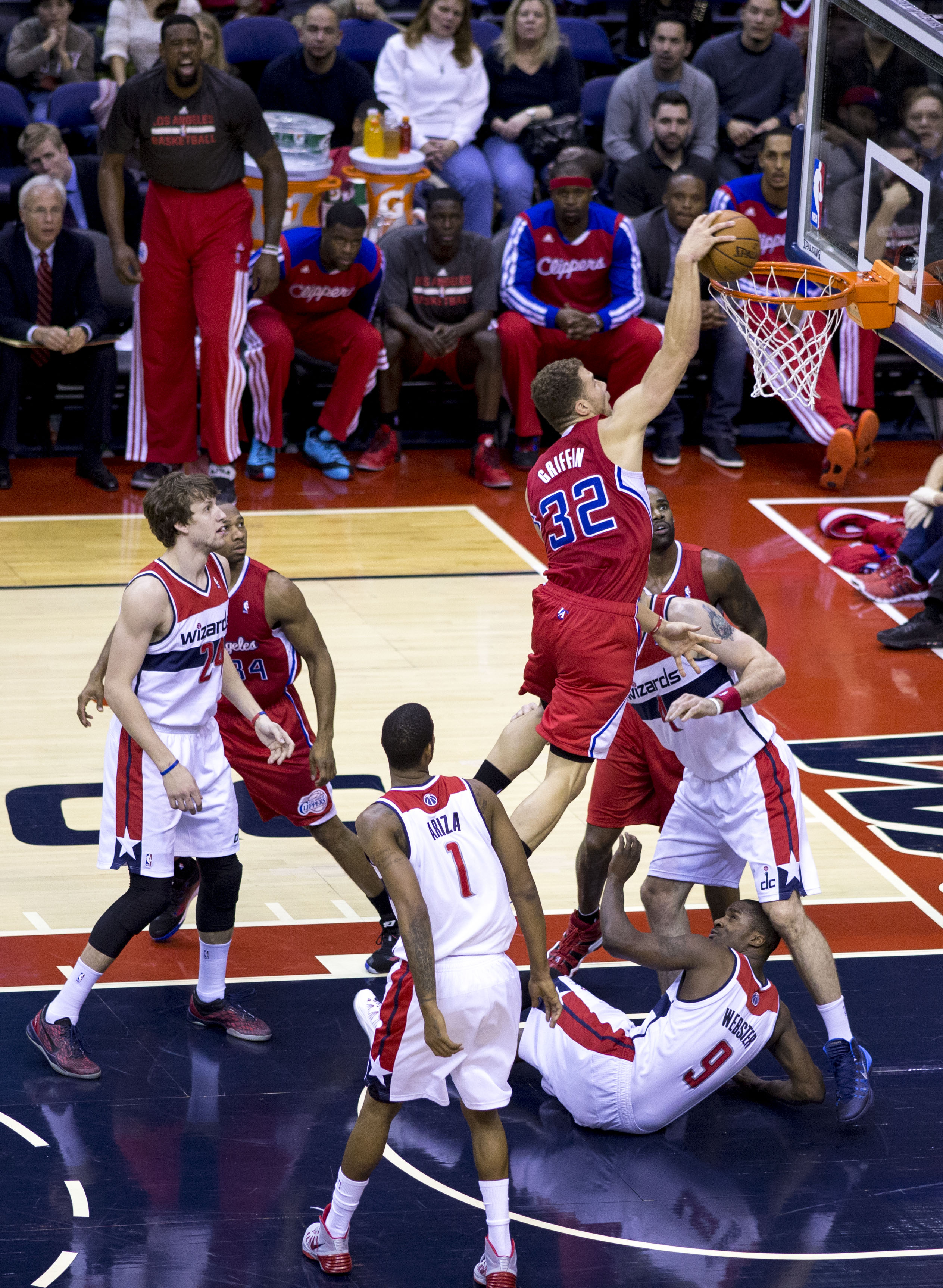 Clippers at Wizards 12/14/13